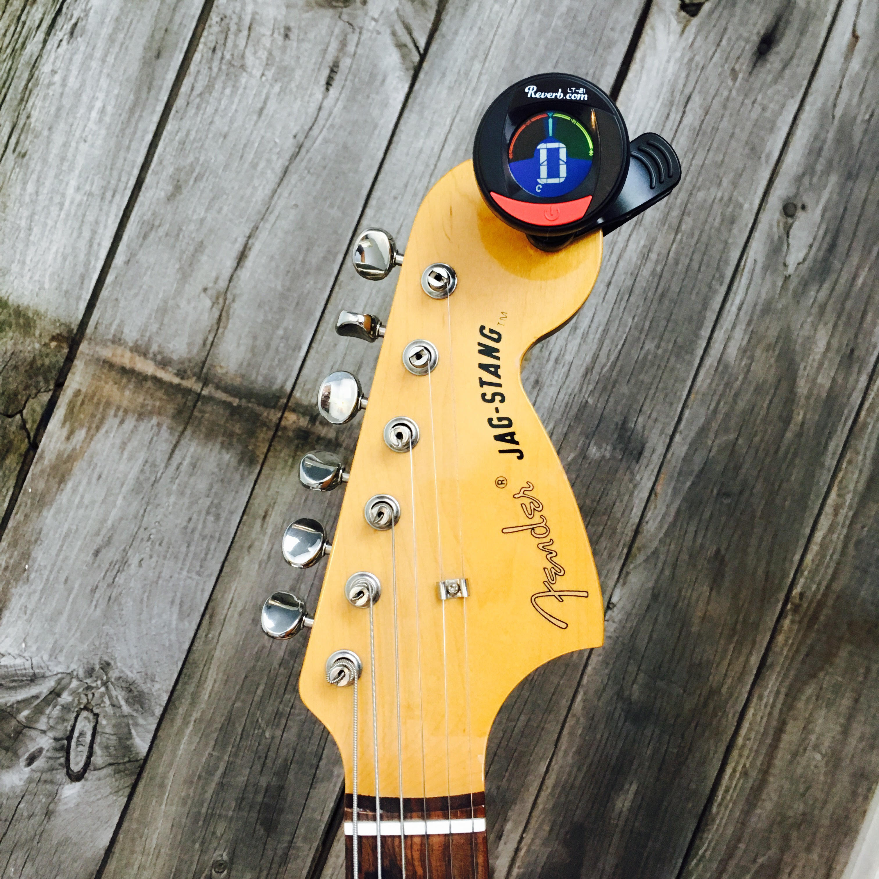 1996 Fender Jag Stang headstock.